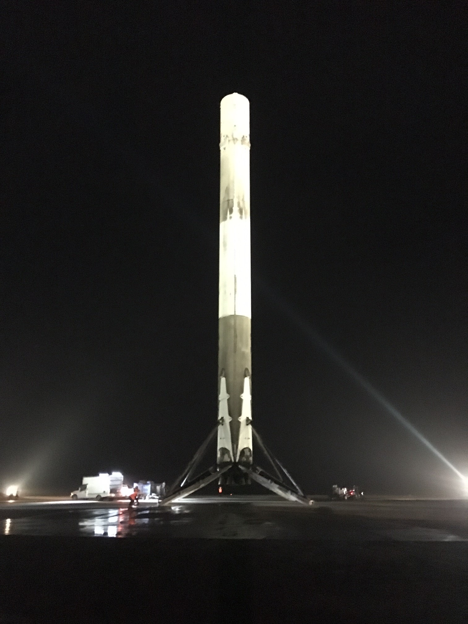 The first stage of a Falcon 9 rocket, which launched 11 Orbcomm OG2 satellites, sits on the pad after successfully returning to Cape Canaveral under powered flight and landing vertically. This marks the first time an orbital spaceflight has landed a rocket stage.